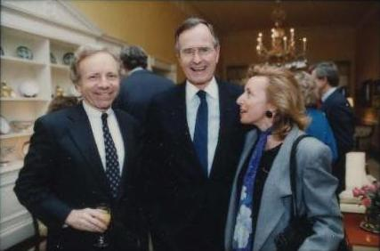 President George H. W. Bush and First Lady Barbara Bush host a private reception for Senators and Congressmen. Guest include Sen. and Mrs. Pete Domenici, Sen. and Mrs. Joseph Lieberman, Boyden Gray, and Boyd Hollingsworth.